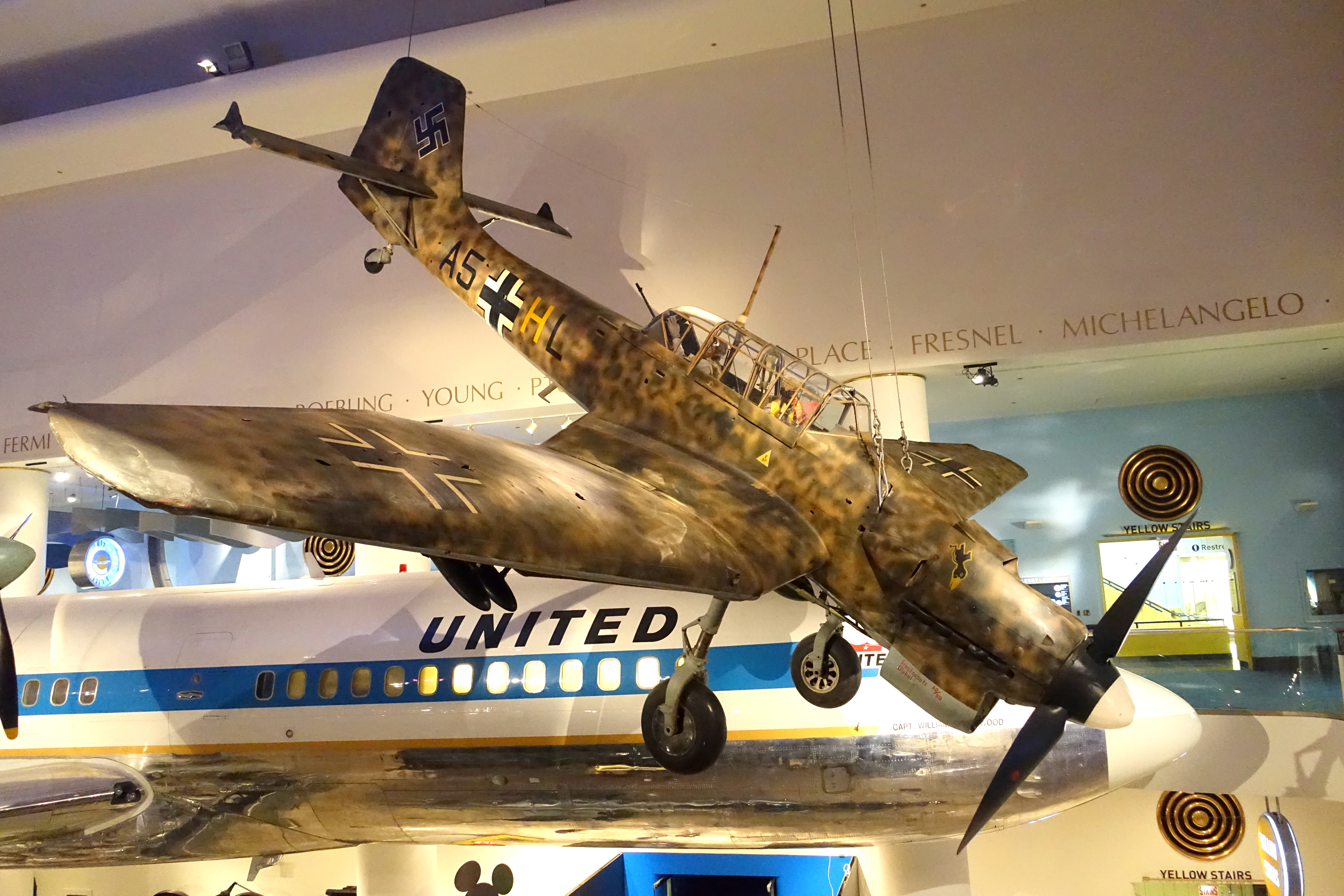 Exhibit in the Museum of Science and Industry, Chicago, Illinois, USA.